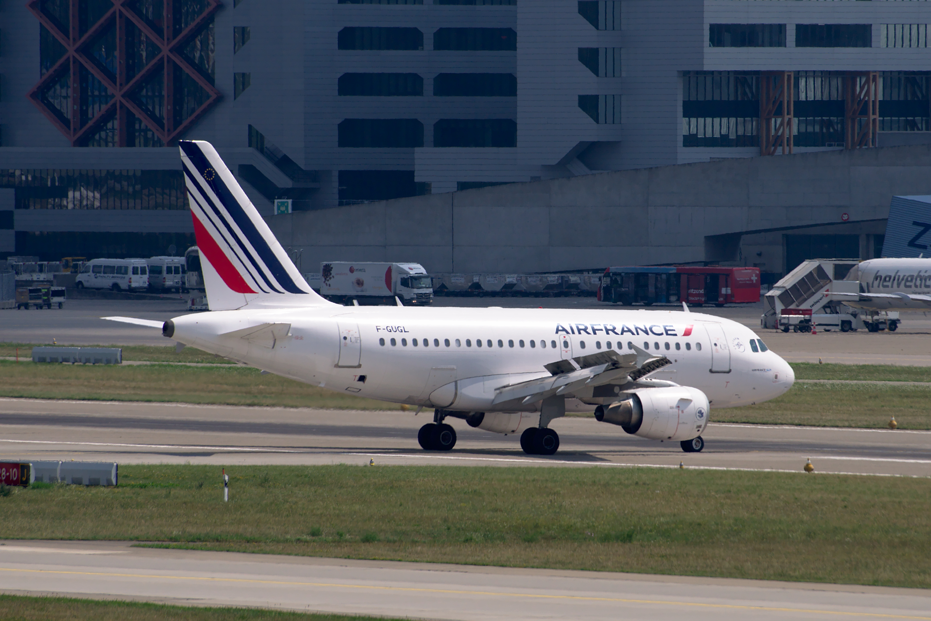 Zürich airport (ZRH).